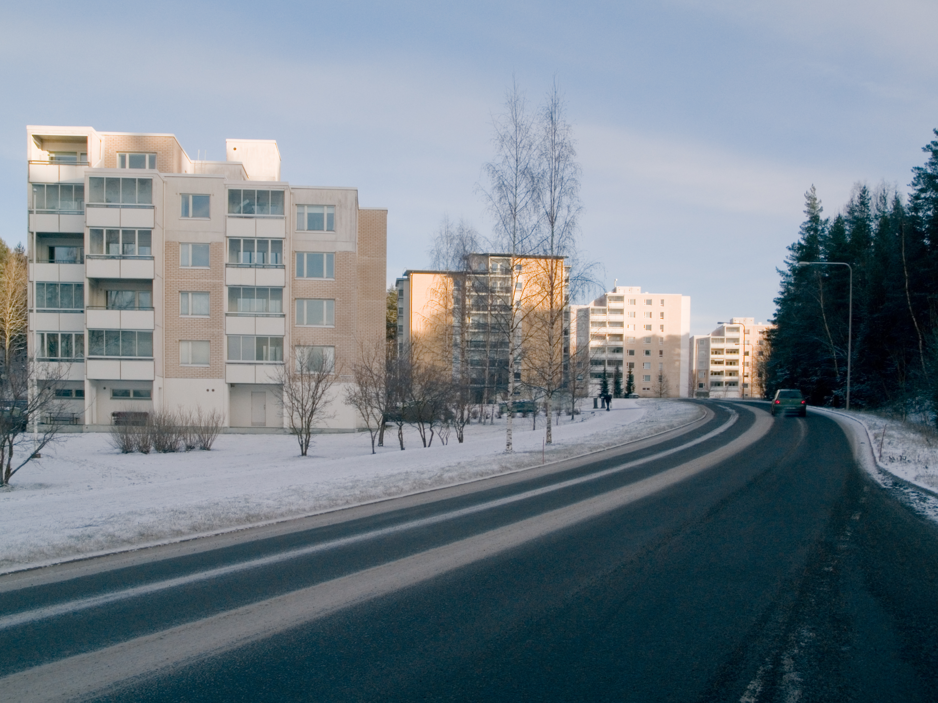 Kohmontie street leading to Kohmo suburb in eastern Turku.